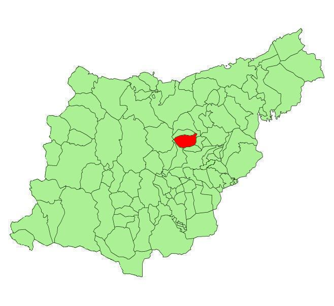 Alkiza municipality in the province of Guipuzcoa